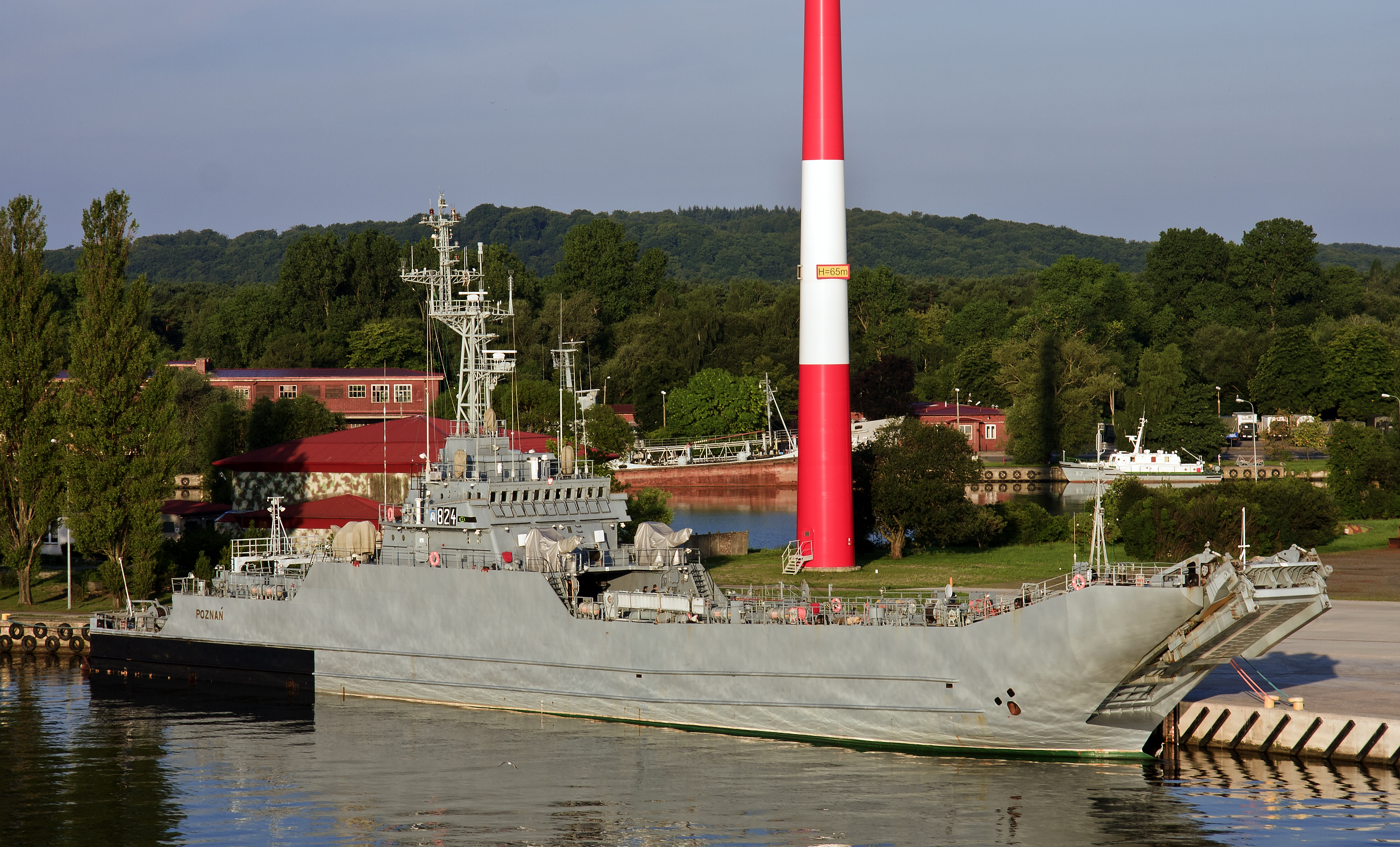 Minelayer-landing ship ORP Poznań in Świnoujście, Poland.